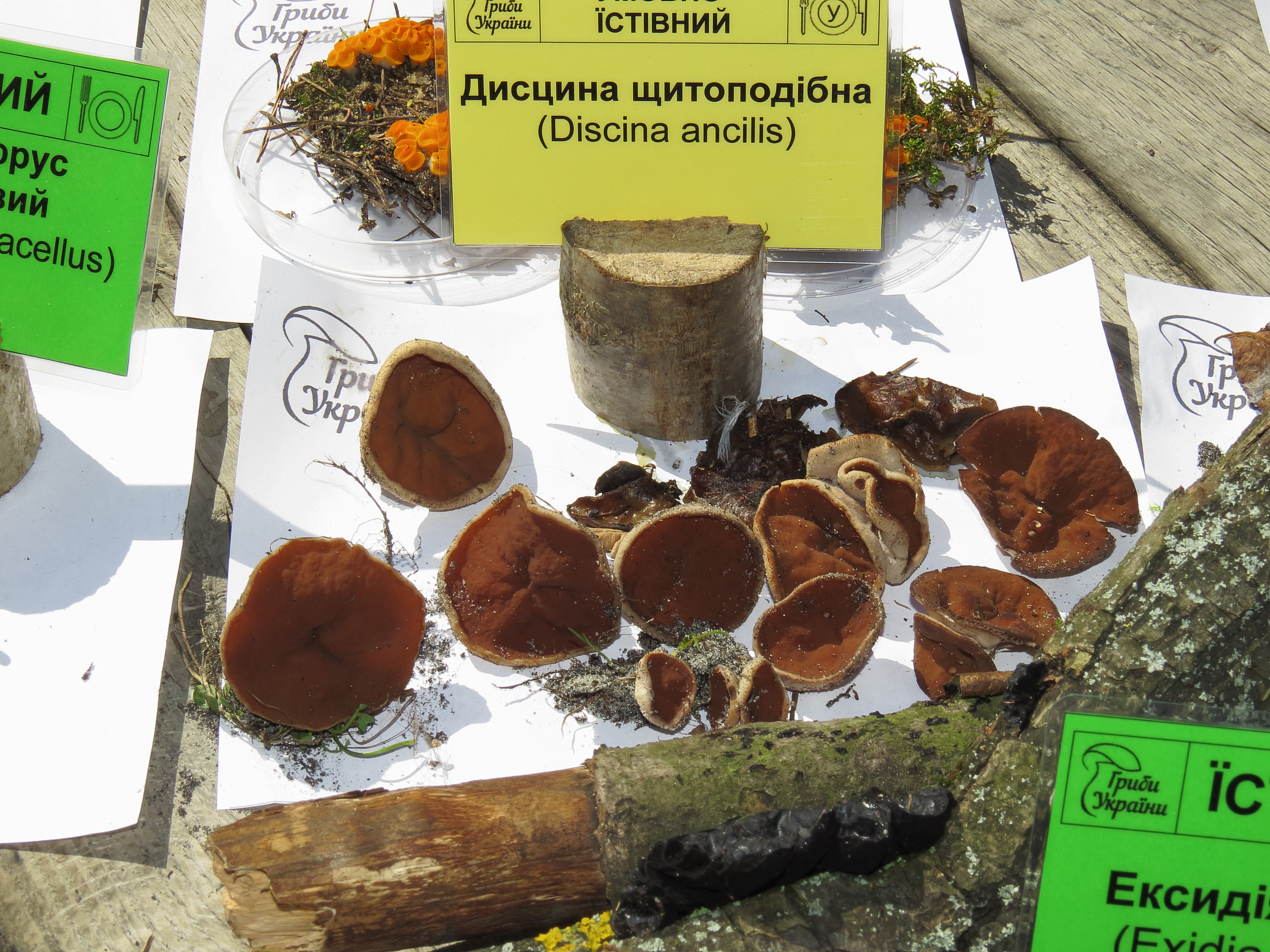 Mushroom exhibition in Shevchenko park, Kiev, Ukraine. Discina ancilis